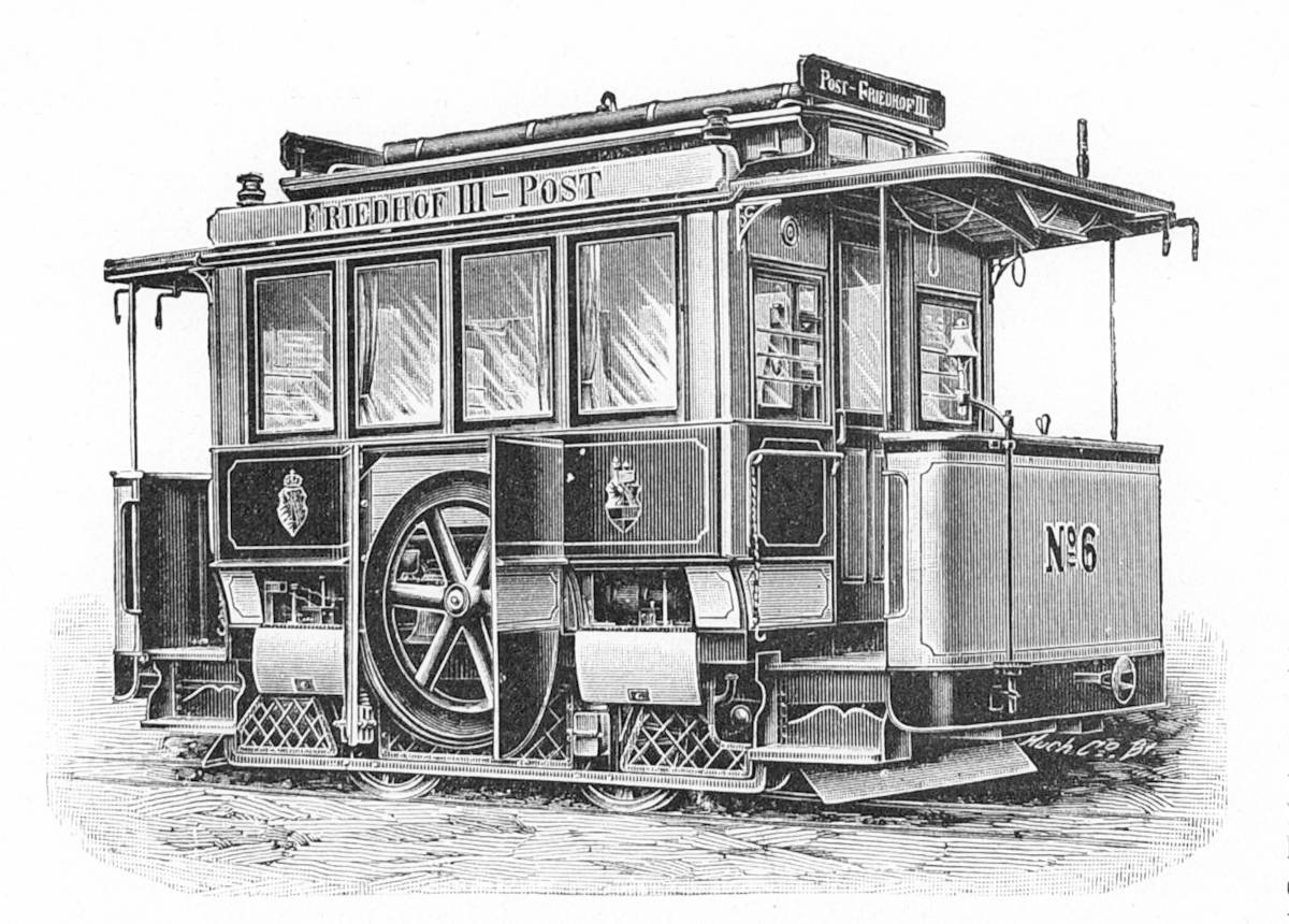 no caption